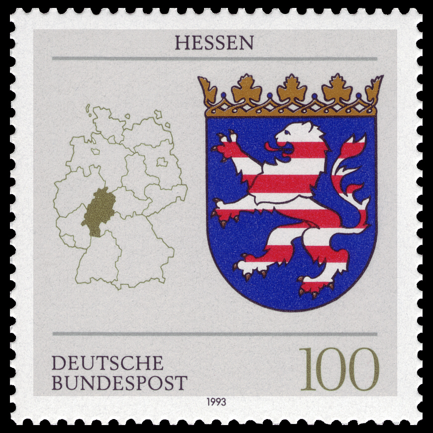 Coats of arms of the 16 states of Germany Ausgabepreis: 100 Pfennig First Day of Issue / Erstausgabetag: 11. März 1993 Michel-Katalog-Nr: 1660 Designer: Jünger